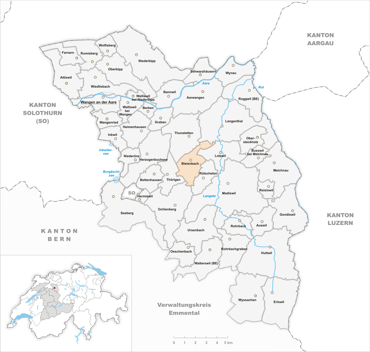 Municipality Bleienbach